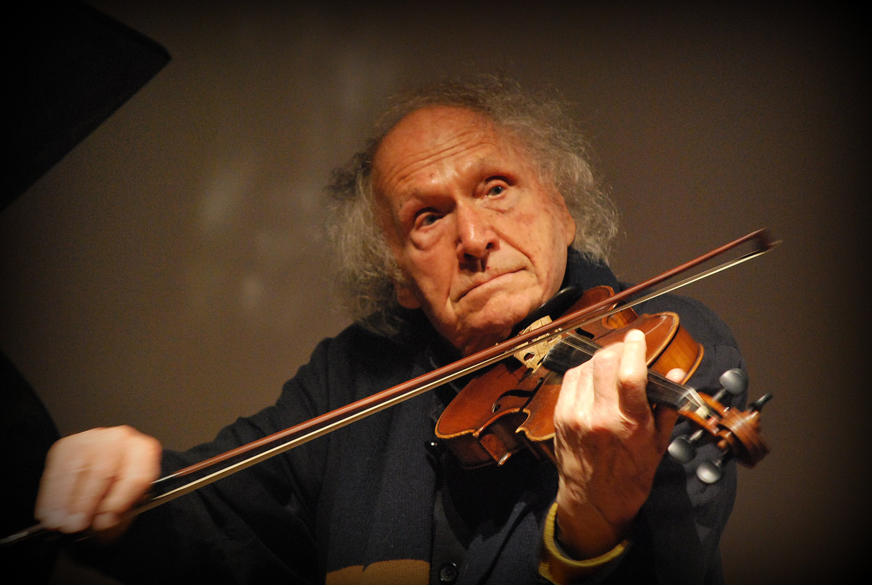 Ivri.